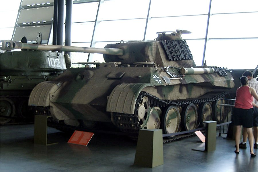 Panther Ausf. A at the Canadian War Museum, Ottawa. August 2008.